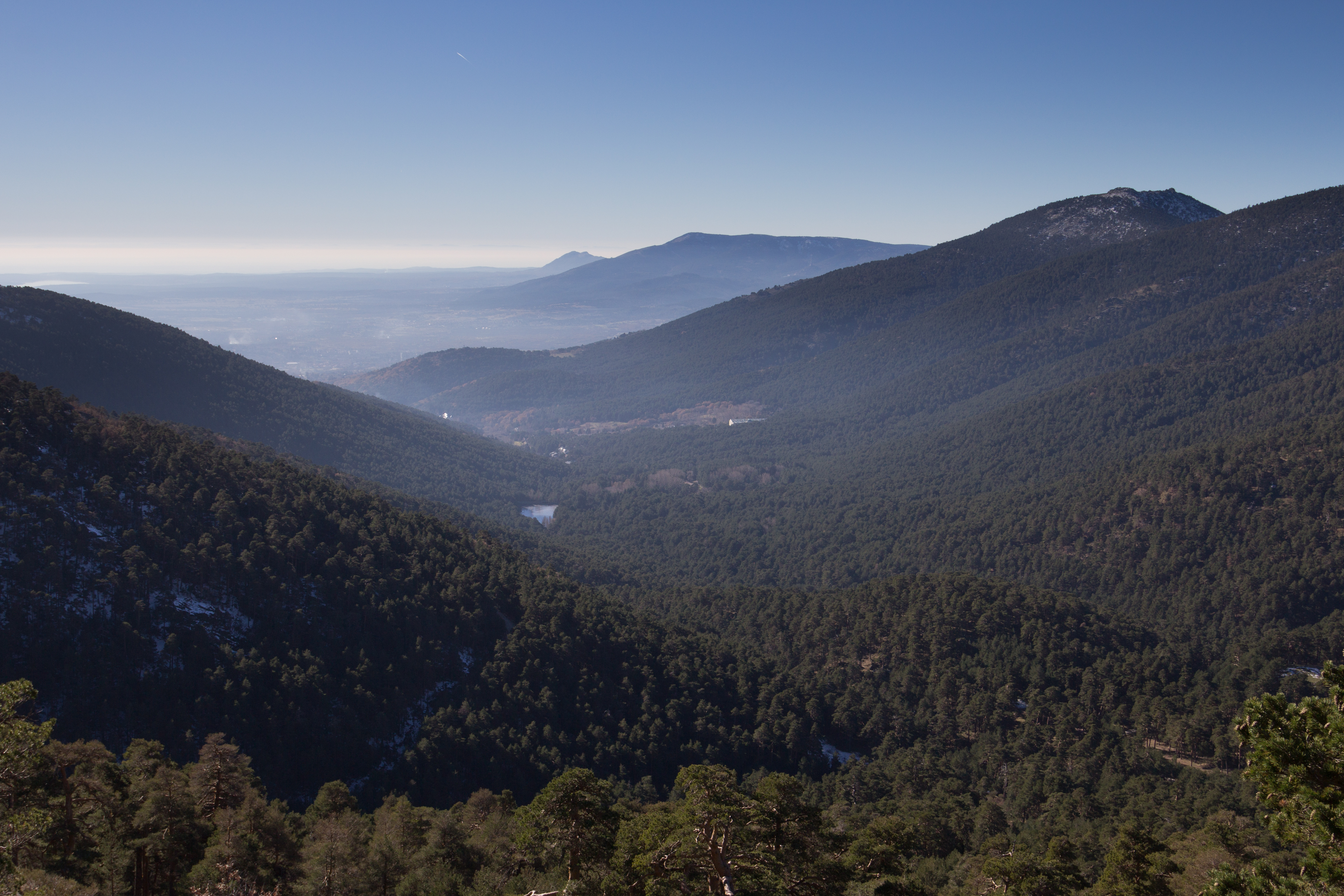 Fuenfría Valley, Guadarrama basin, Community of Madrid, Spain. This is a photography of a Special Area of Conservation in Spain with the ID: ES3110005. Natura2000 entry, EEA entry